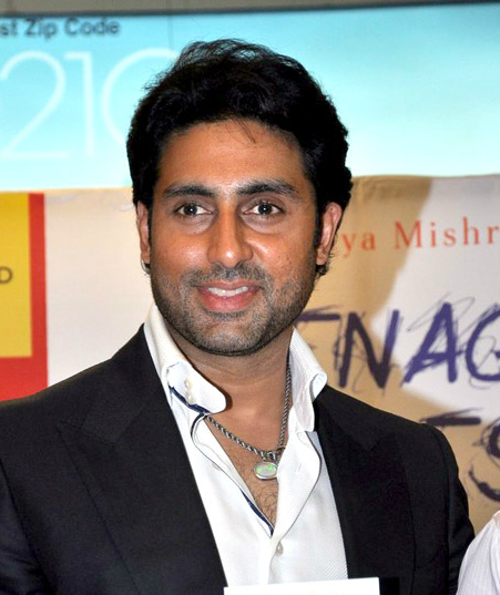 Abhishek Bachchan at a book unveiling ceremony, 2013